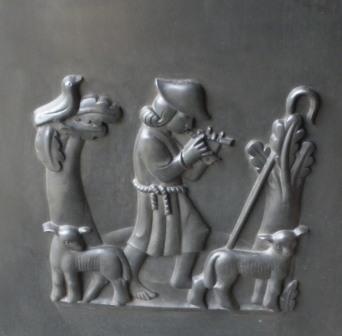 One of the reliefs on the door of Guildford Cathedral by Vernon Hill-this representing "shepherding"